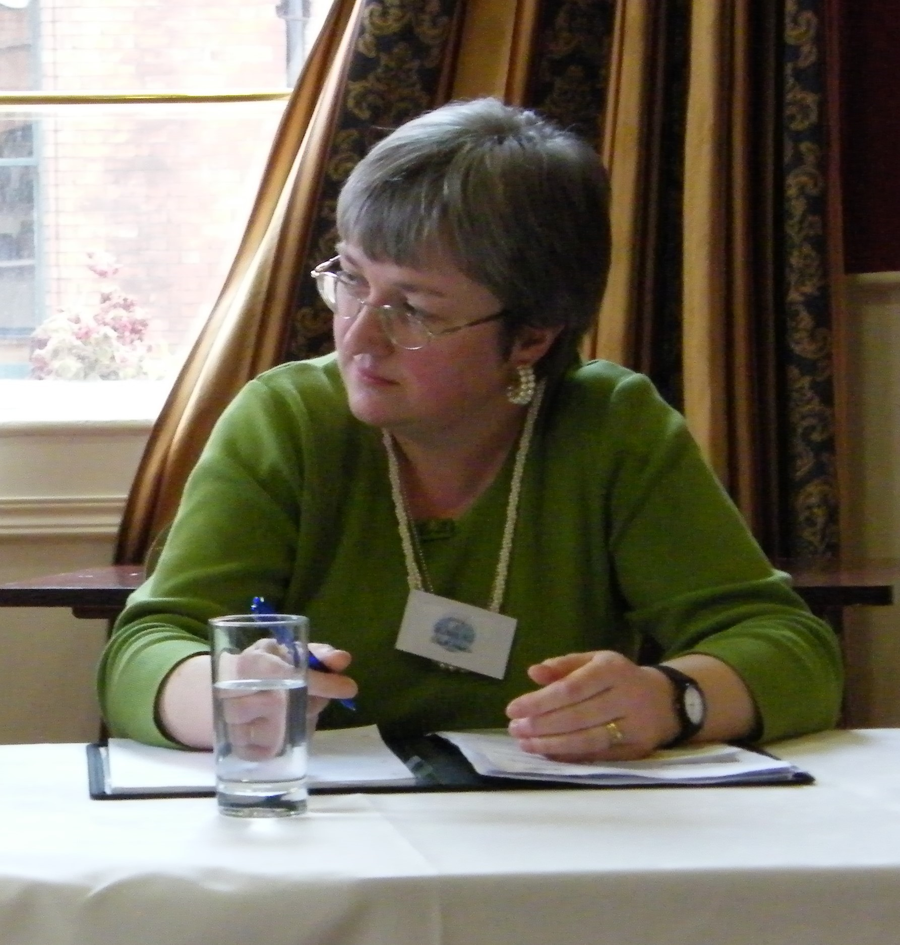 Juliet E. McKenna at (now defunct) P-Con in Ireland.